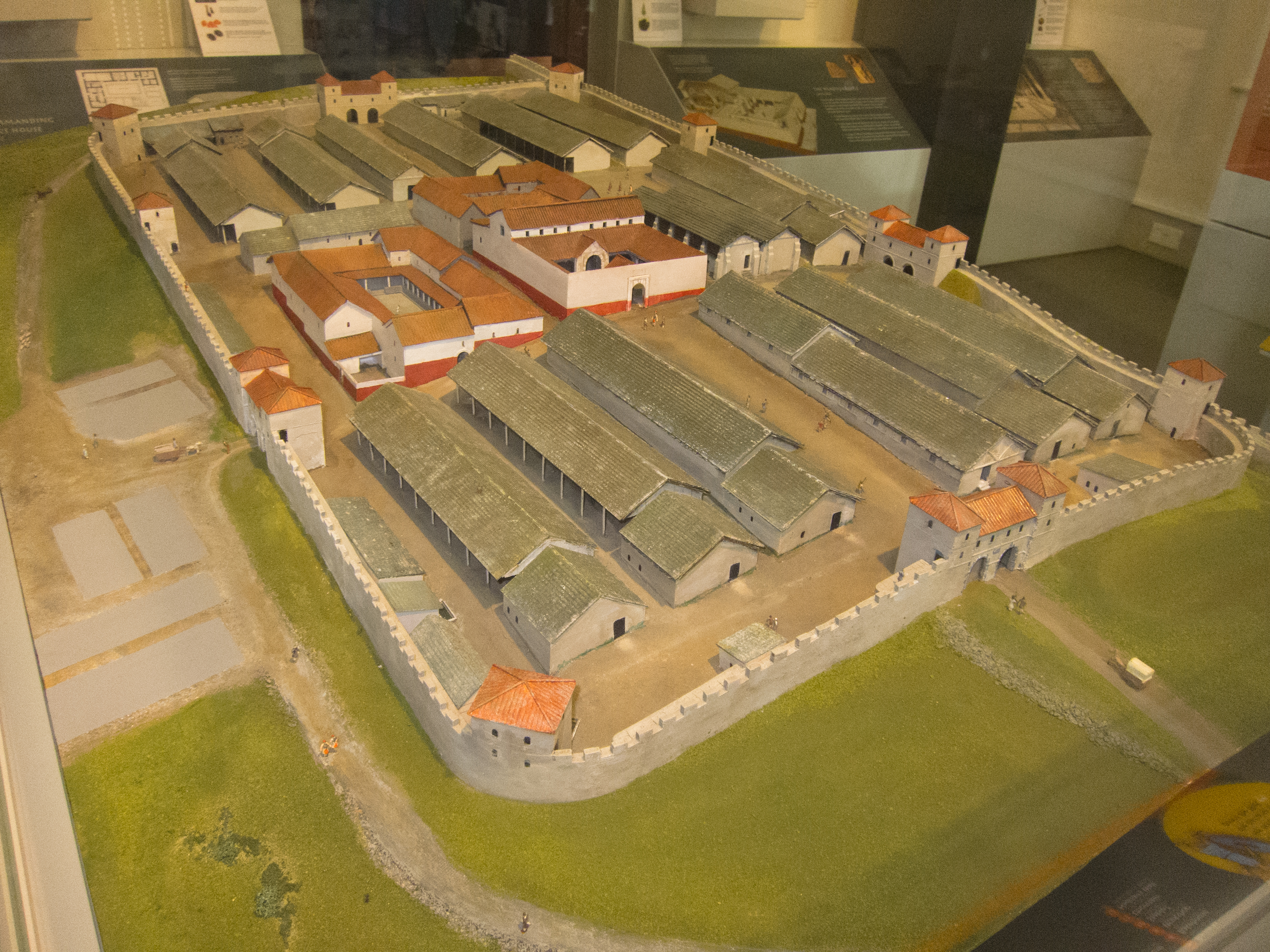 Diorama of Roman fort Housesteads at Hadrian's Wall (2nd century), Northumberland, England